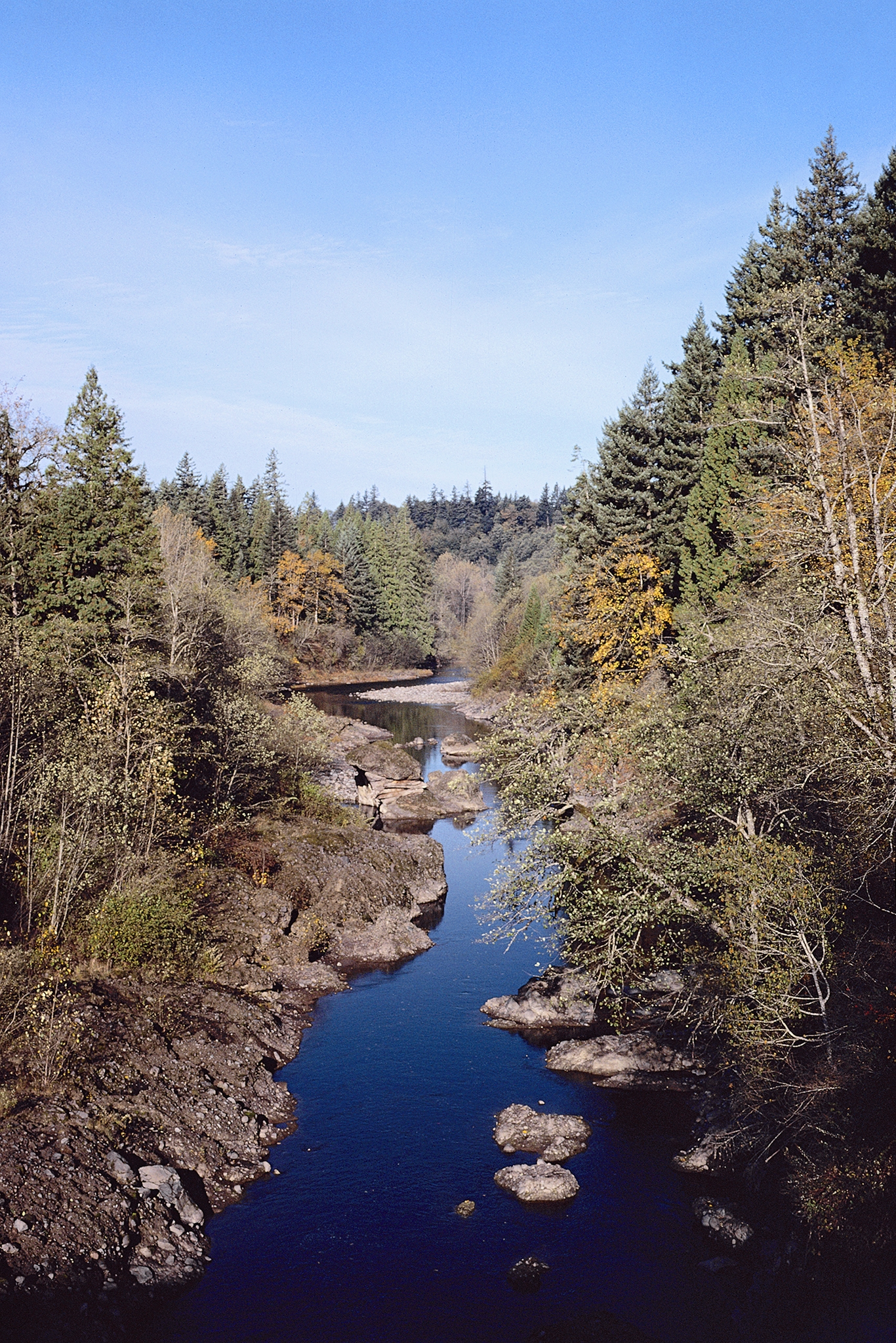 Sandy River, Oregon